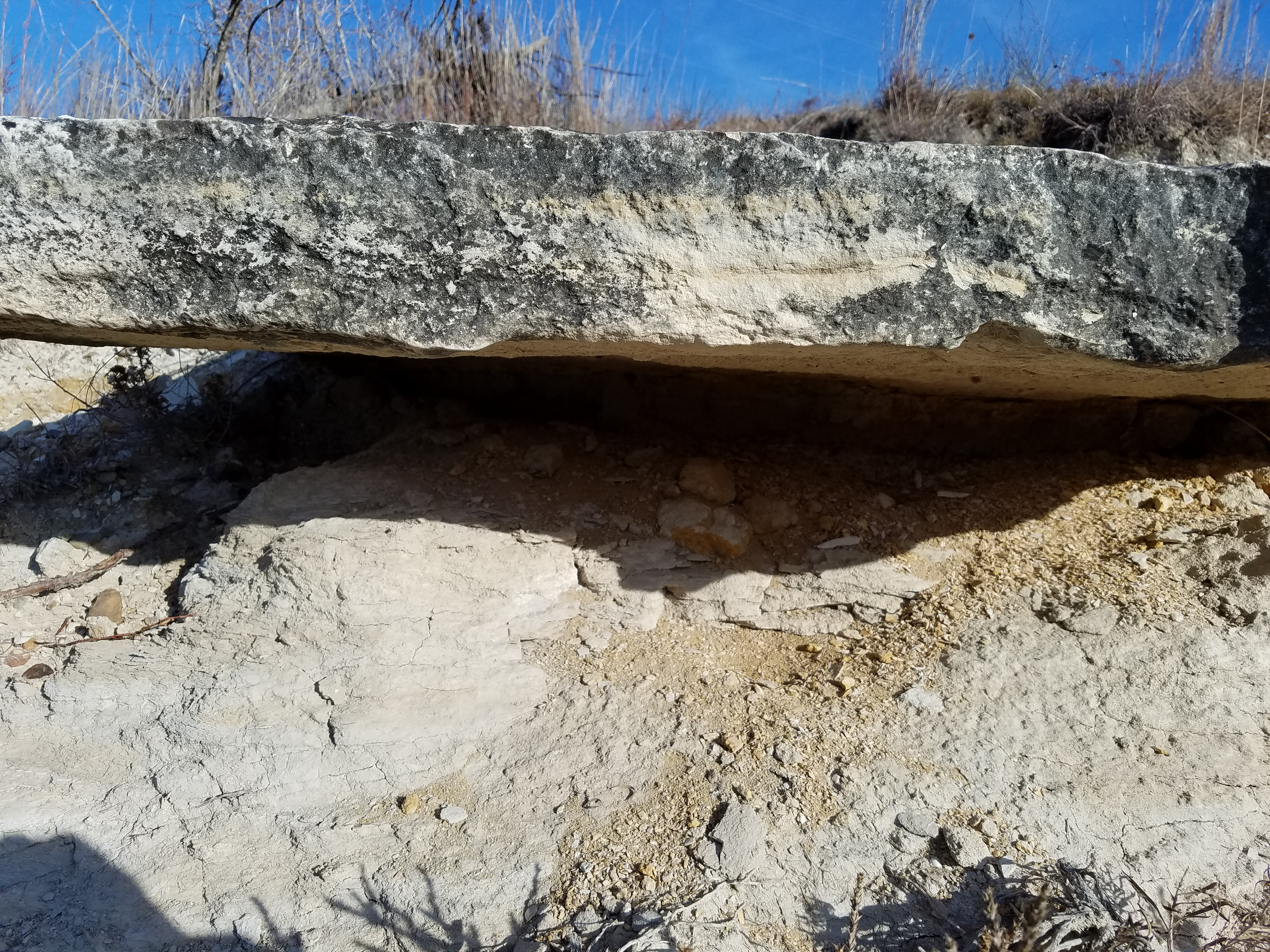 Fairport Chalk limestone marker bed F-2 This "limestone above the Fencepost" resembles the Fencepost limestone like a "little brother", and was locally quarried with the Fencepost , but is thinner and lies directly on a 2" bentonite seam (Fairport Chalk bentonite marker bed F-1).